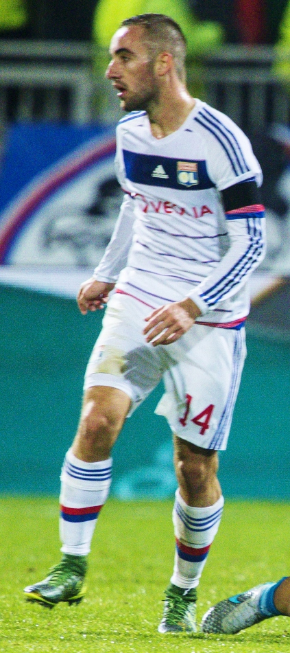 Sergi Darder